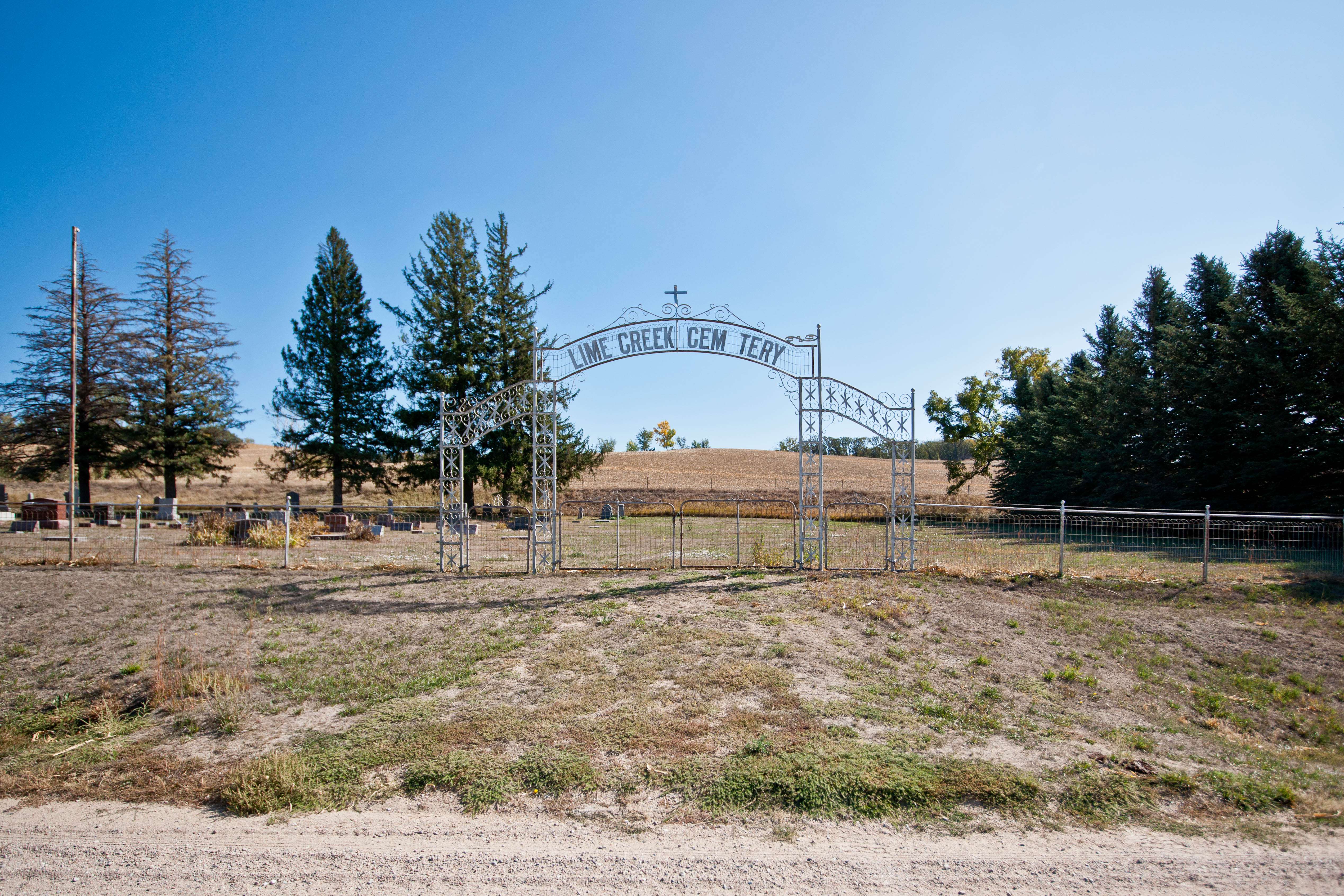 From